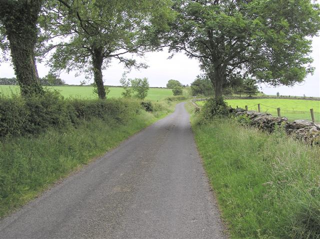 Kennystown, near Sion Mills. At last, somewhere I can relate to!